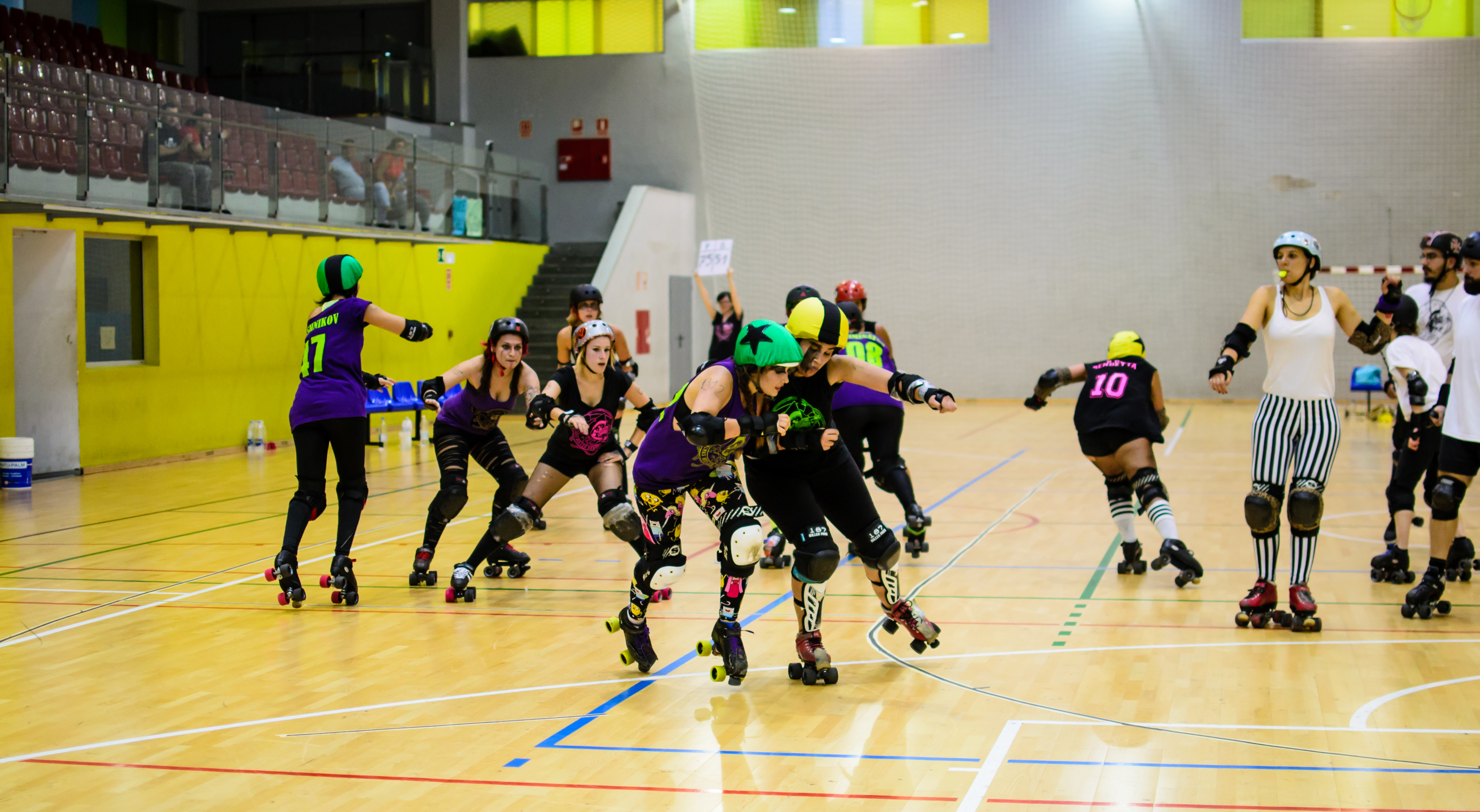 Exhibition match of Las Palmas Roller Derby.